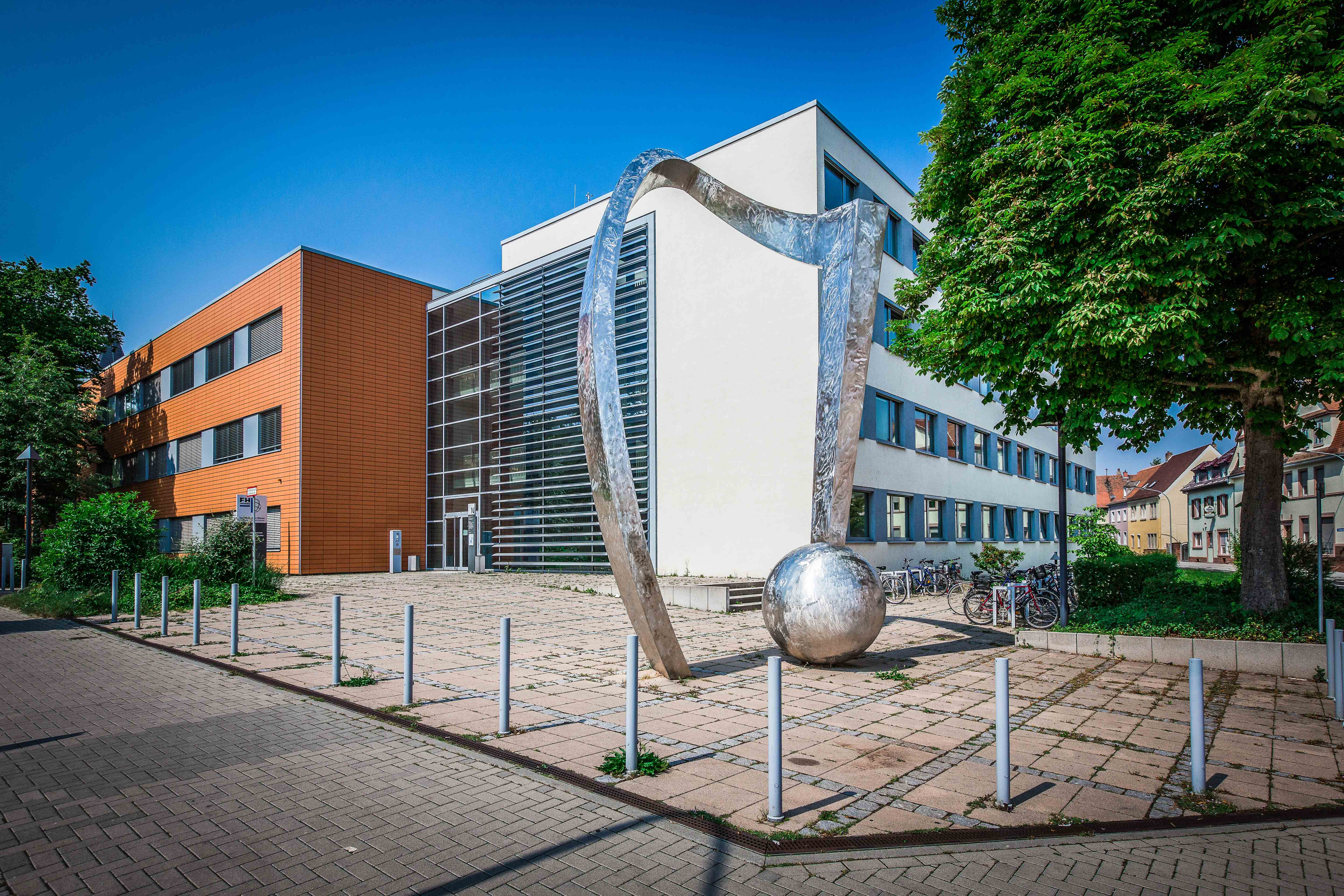 University of Applied Sciences Worms, building N